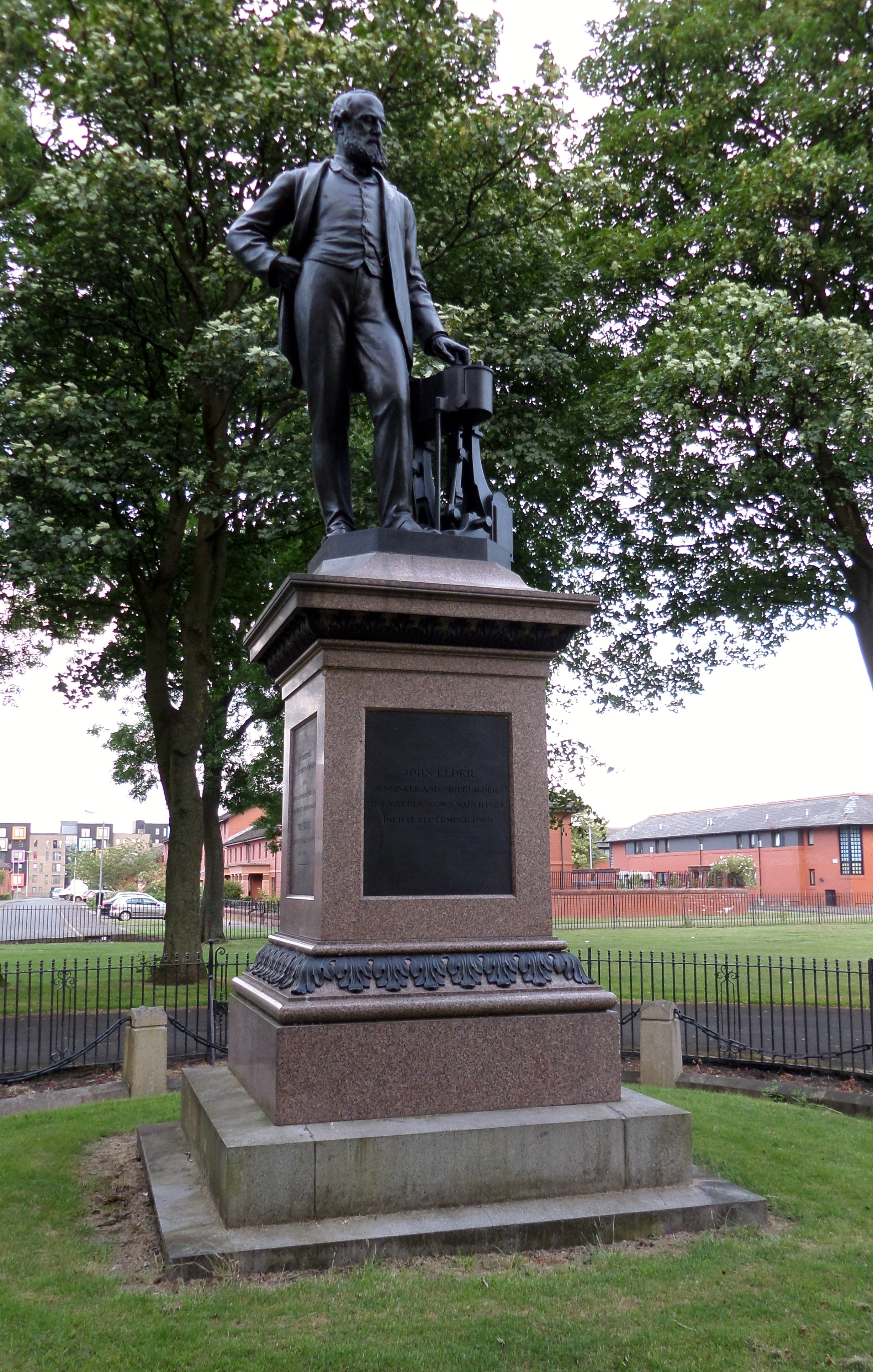 The John Elder statue in Elder Park, Govan, Scotland.